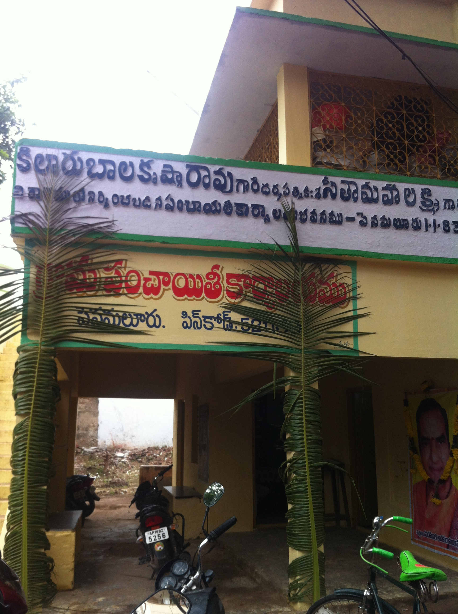 Panchayathi Office